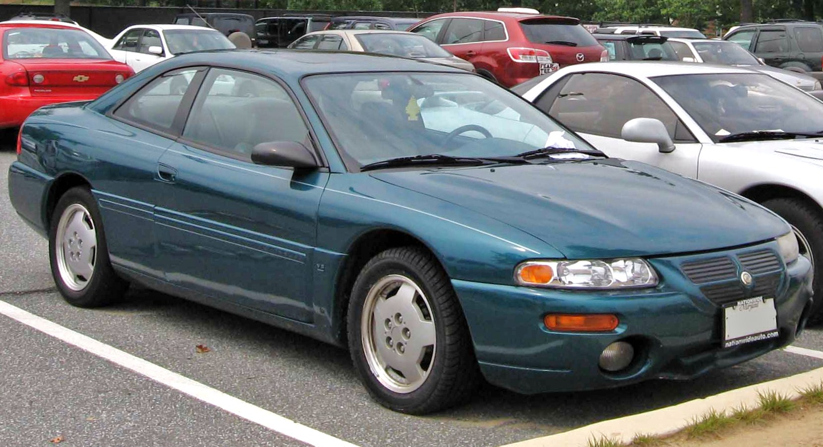 1995-1996 Chrysler Sebring photographed in USA.